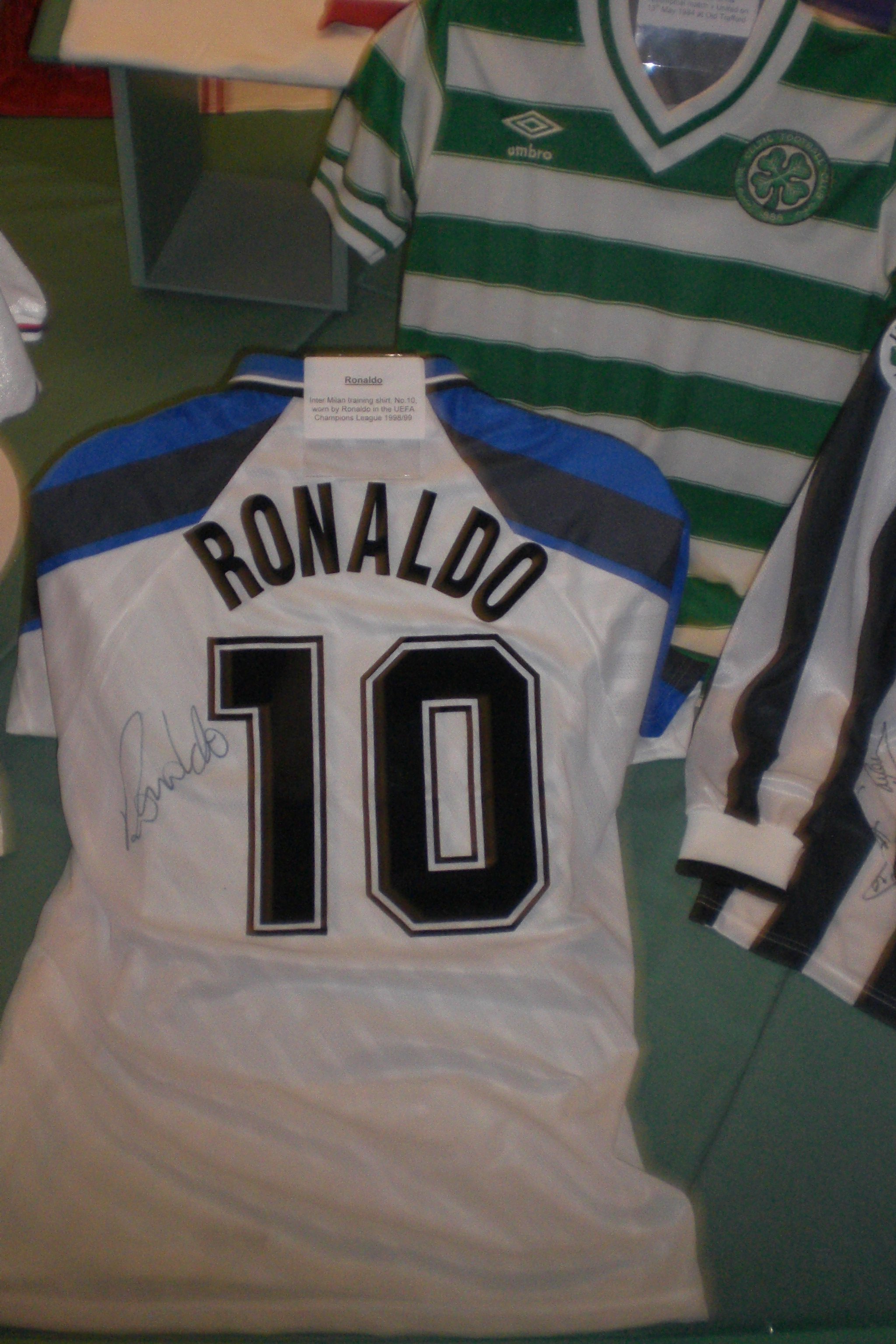 Brazilian Ronaldo's shirt which he used for Inter vs Man. United